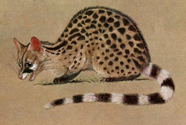 Plate 3 Genetta cristata